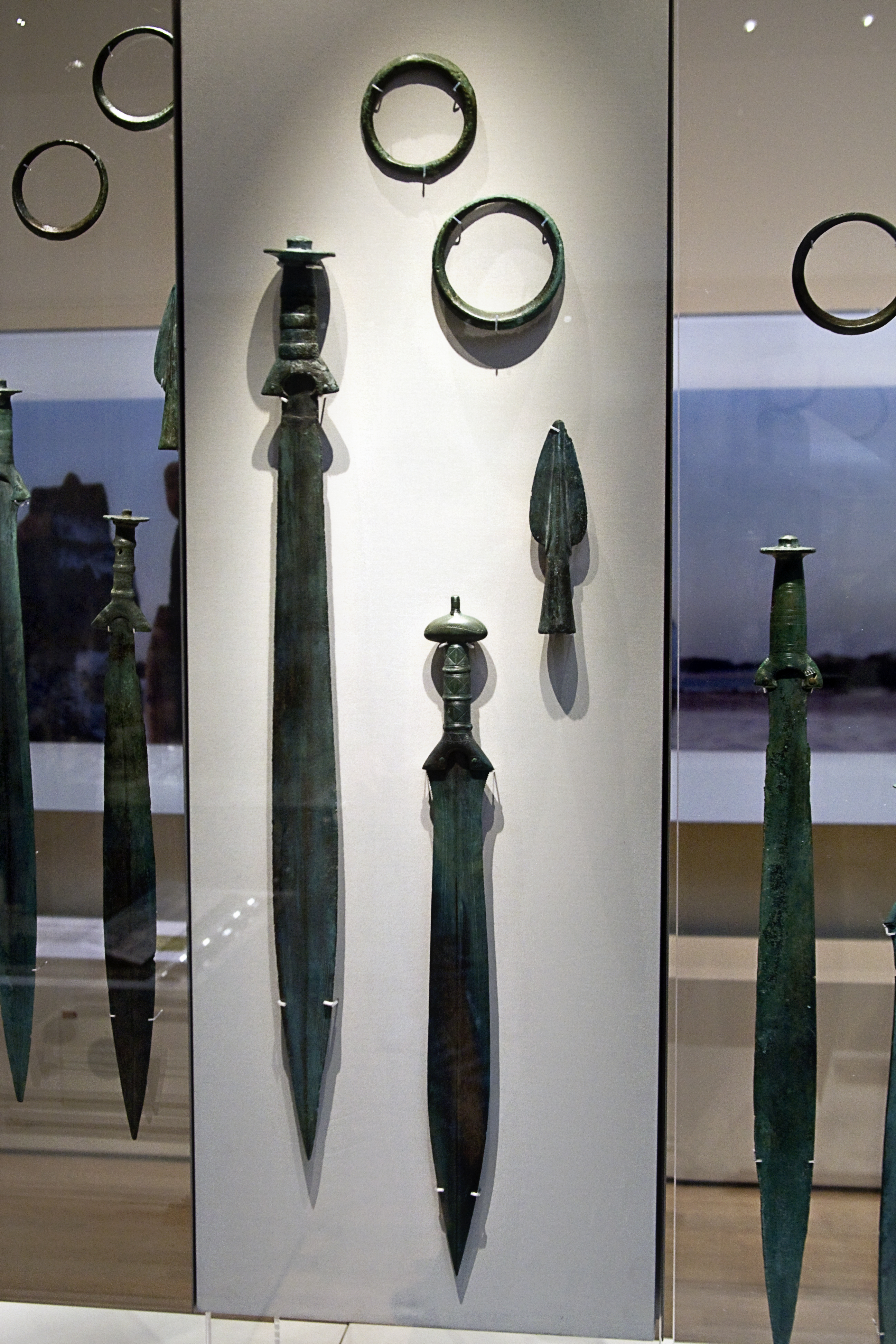 Bronze swords and fittings from Hungary in the British Museum. Tag on exhibit reads: "Bronze weapon hoard. This hoard contains four matched sets of arms, possibly belonging to four warriors. Each set comprises two swords, two suspension rings and a spearhead. Also associated was a cart fitting. The swords are early forms of the leaf-shaped type. They were often richly decorated on the hilt or blade with incised goemetric patterns. The rings could have served to suspend the sheath from a belt. Late Bronze Age, about 1200-1050 BC. Zsujta, Borsod-Abauj, Hungary. PE 1888,0110.2-21" See BM database entry for more details.